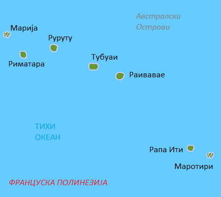 Map (rough) of the Austral Islands, French Polynesia, own work composed from various mapreferences, in Macedonian